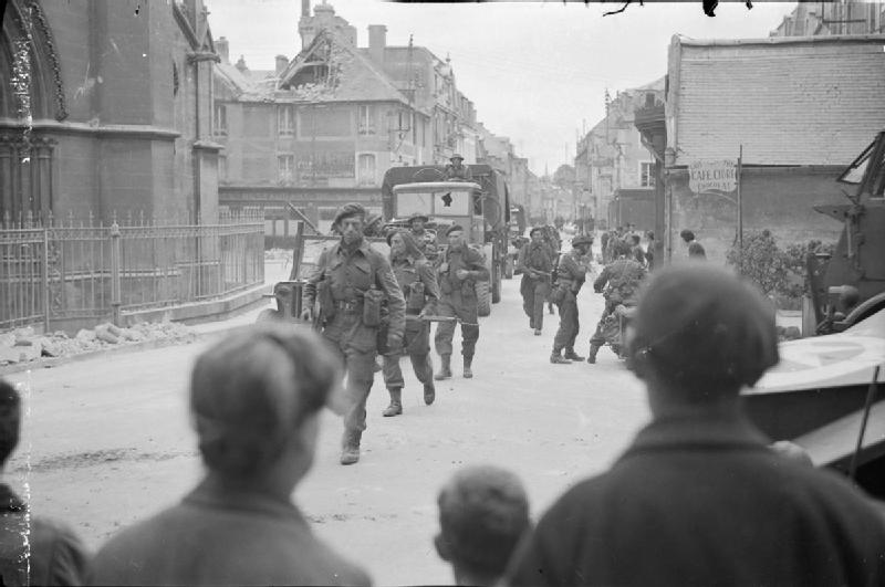 Operation Overlord (the Normandy Landings)- D-day 6 June 1944 The British 2nd Army: Men of No.46 (Royal Marine) Commando, 4th Special Service Brigade, passing through the village of Douvres la Delivrande, watched by French civilians.